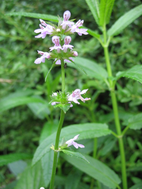 Stachys aspera